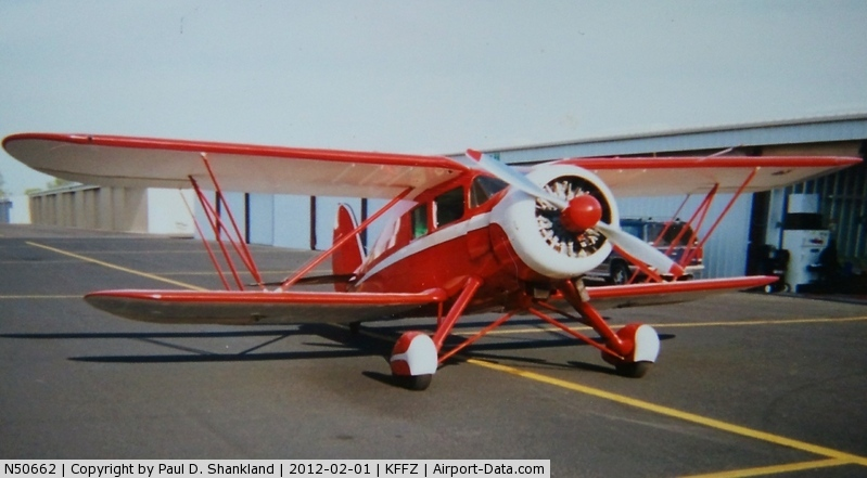 Waco Standard Cabin Model HKS-7 (formerly ZKS-7 since 1947) Biplane